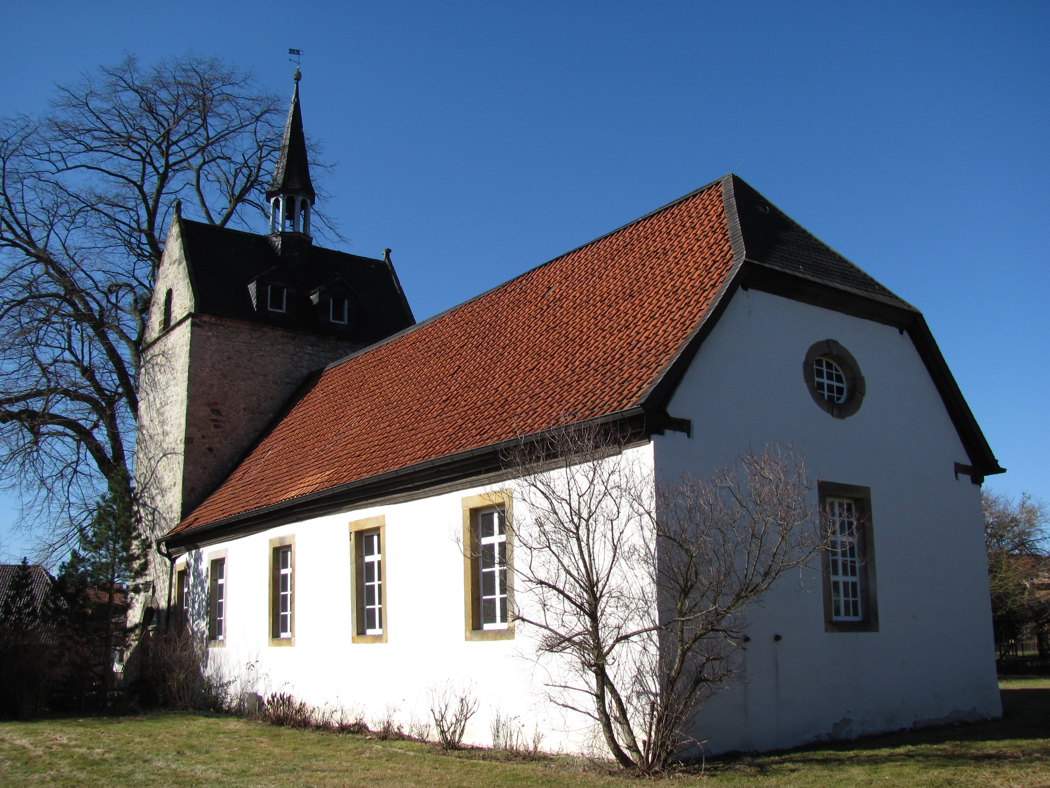 St. Paul's Protestant Church, Holle-Hackenstedt, Lower Saxony, Germany.